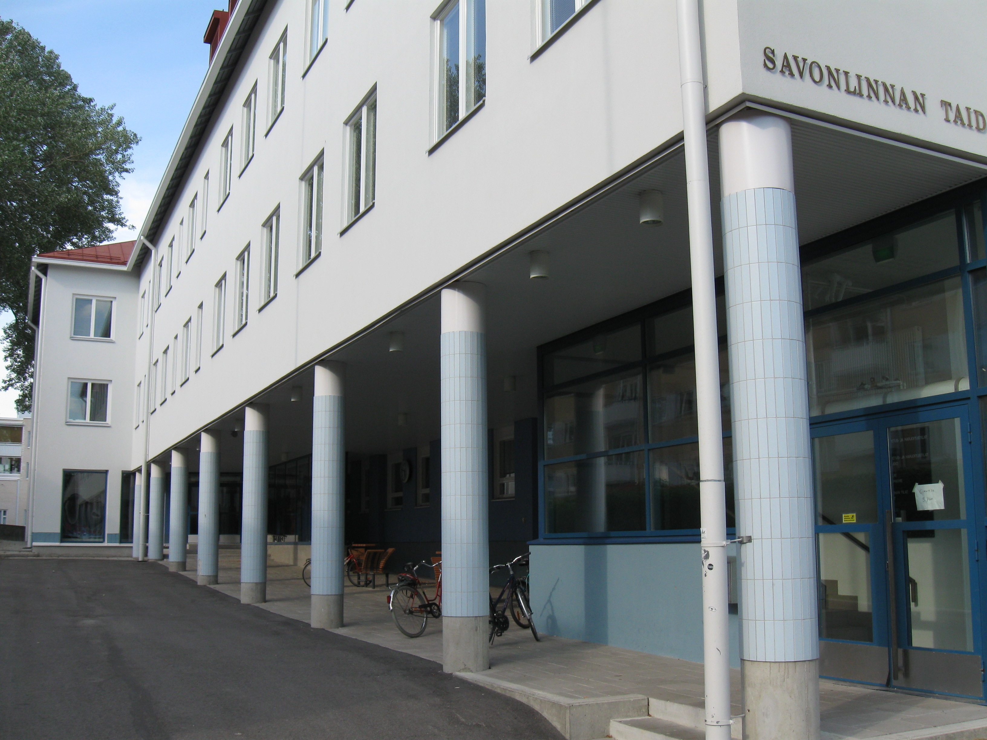 The upper secondary school at Savonlinna, Finland, which is specialized in arts.